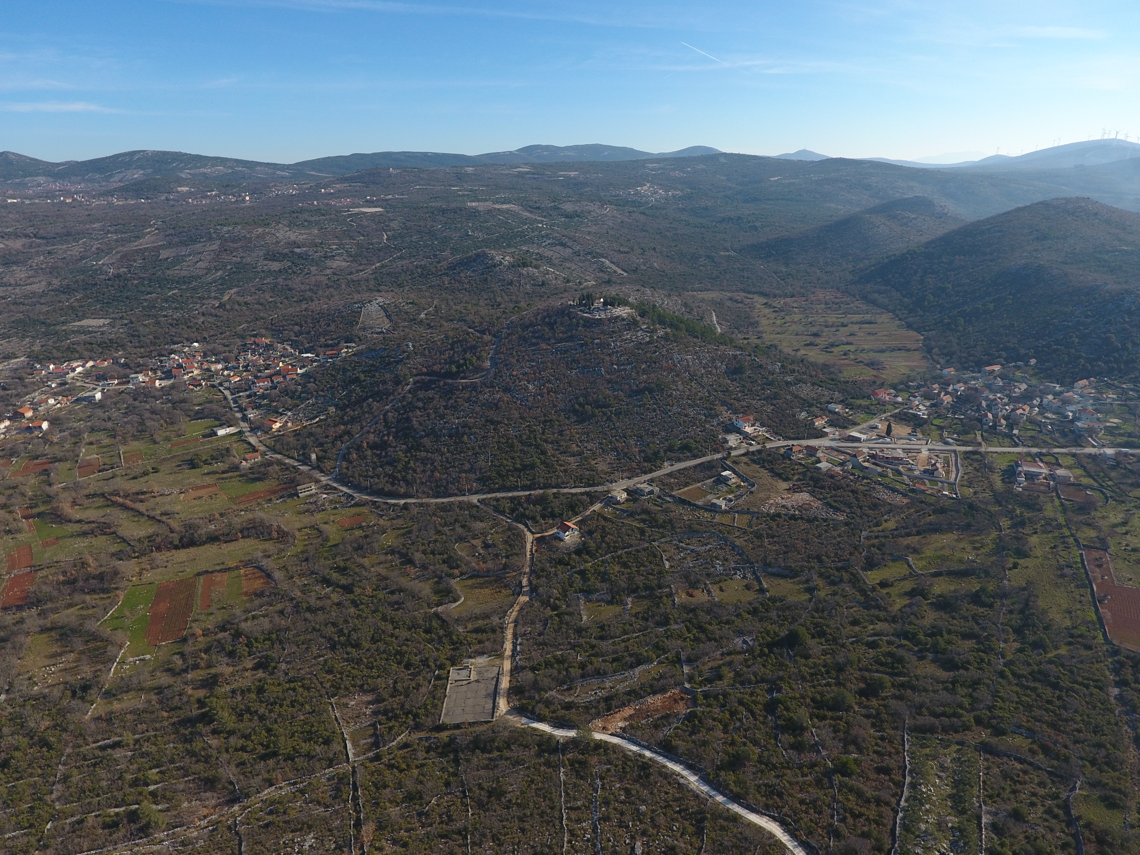 Rastovac near Marina, Croatia